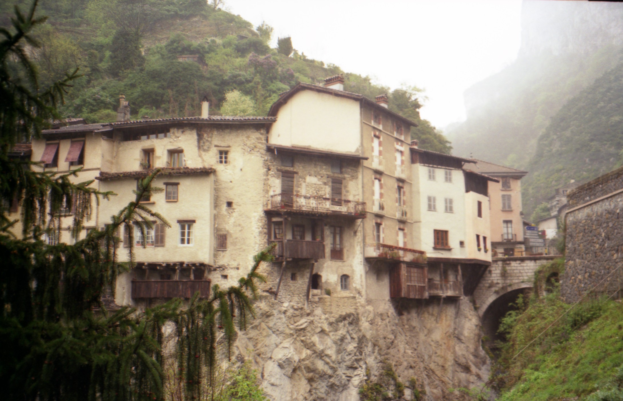 Pont-en-Royans, in the Vercors, near Grenoble, France